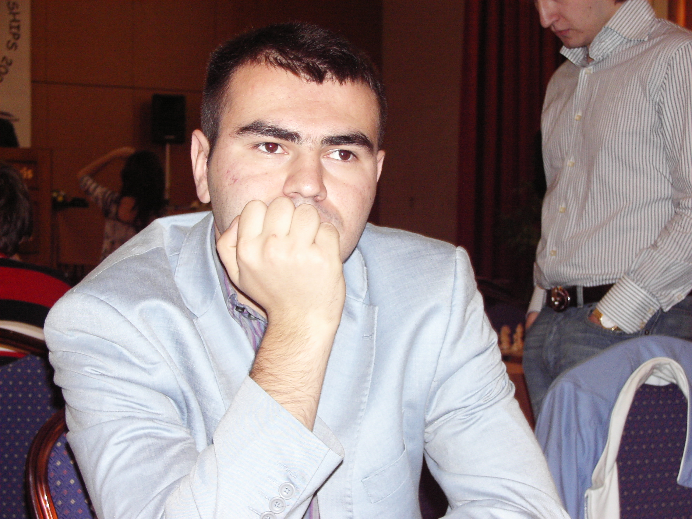 Shakhriyar Mamedyarov during Eurochess 2007